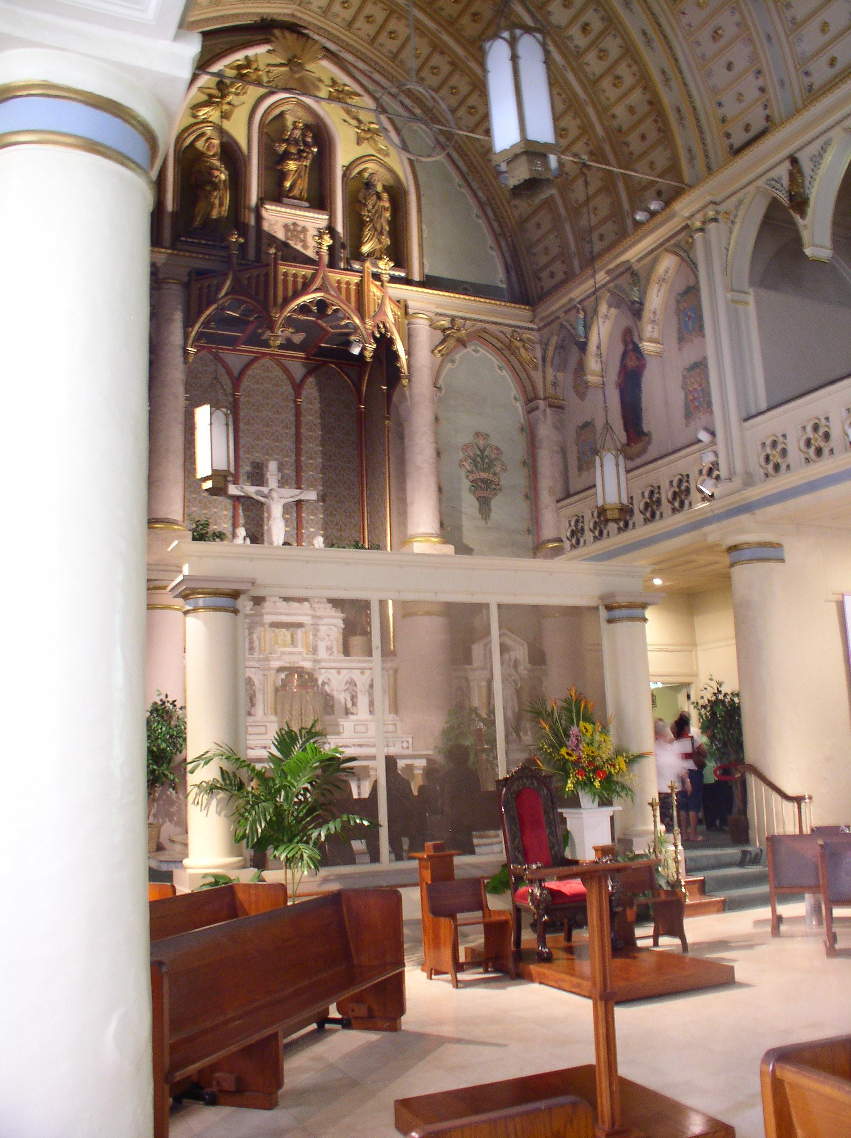 Screened altar and cathedral in Cathedral of Our Lady of Peace (Roman Catholic) in Honolulu, Hawaii